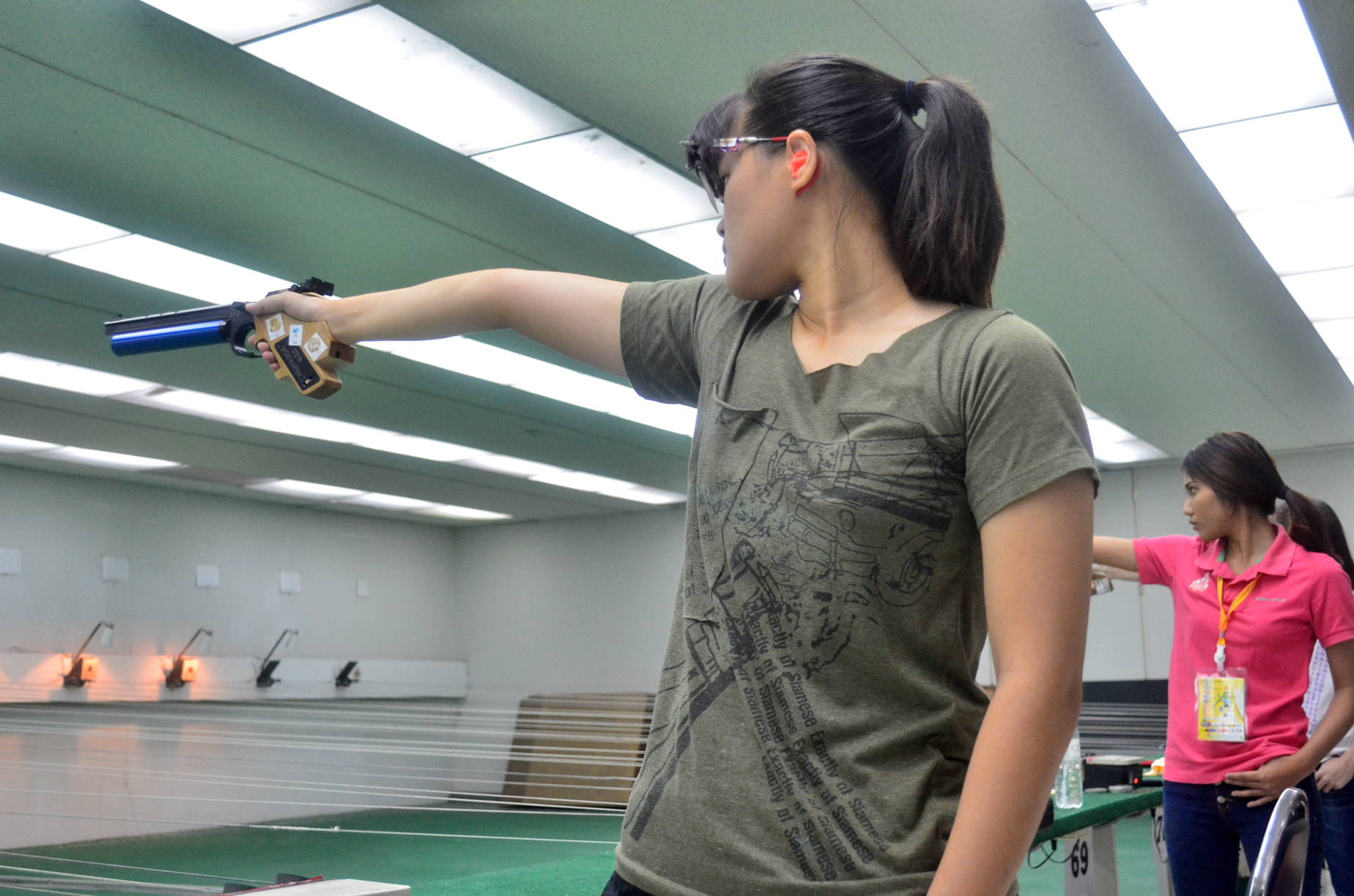 Tanyaporn Prucksakorn